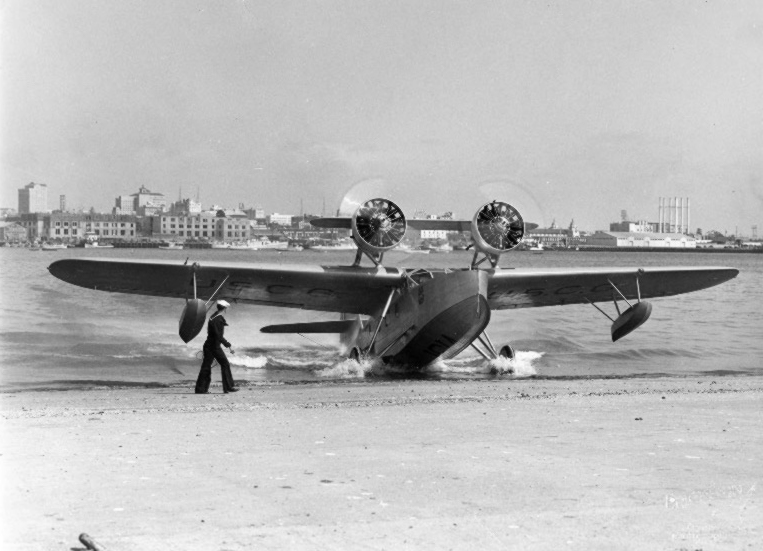 The U.S. Coast Guard Douglas RD-4 Canopus (s/n V-134) returning to the Coast Guard Air Station San Diego, California (USA), circa 1937.